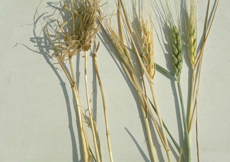 Foot rot (Symptoms) Pseudocercosporella herpotrichoides (Wallwork & Spooner) Crous & W. Gams Sample wheat plants showing symptoms of foot rot of wheat (Pseudocercosporella herpotrichoides). Image location: United States